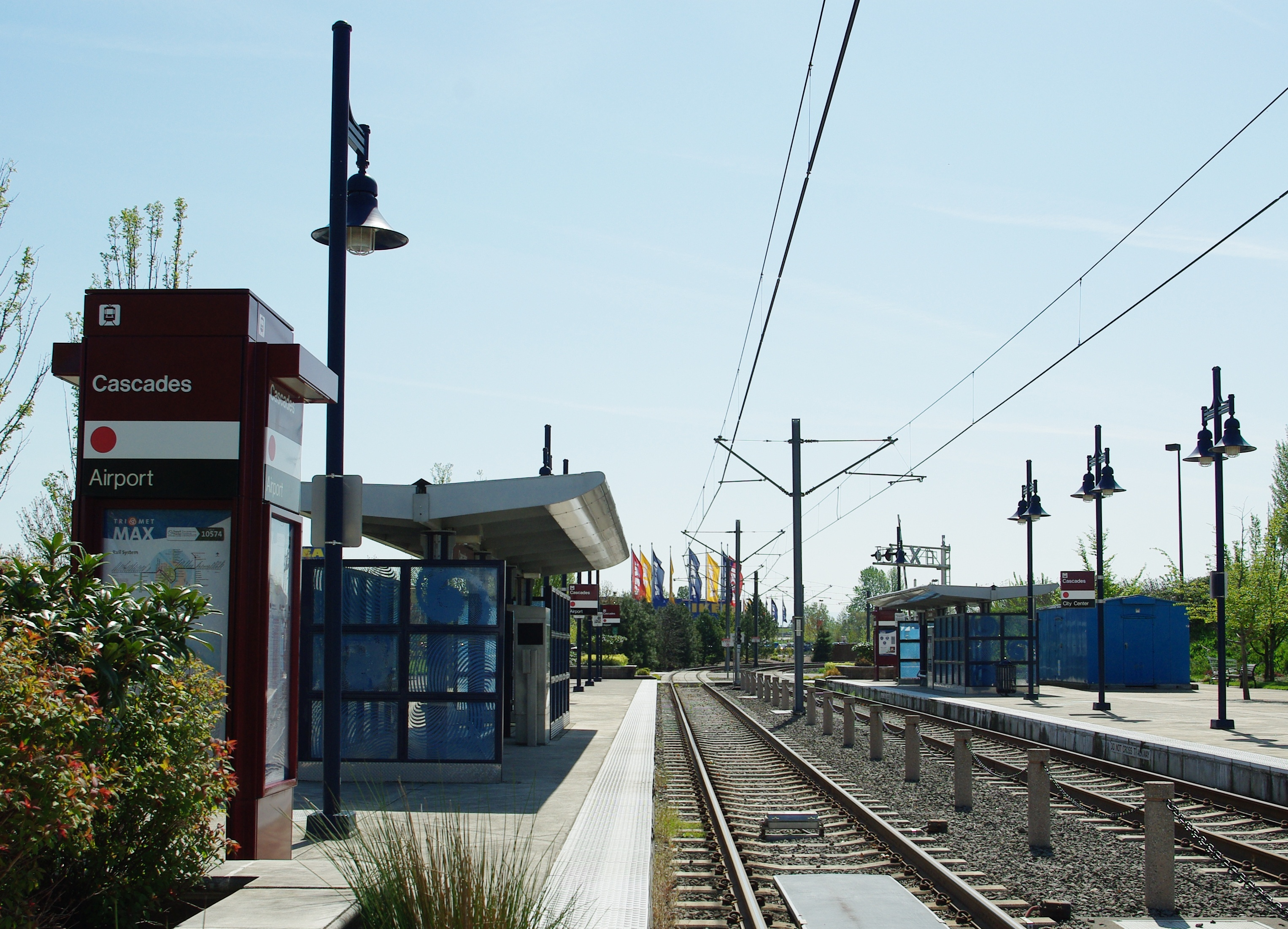 Cascades MAX station in Portland, Oregon. Looking east towards IKEA.